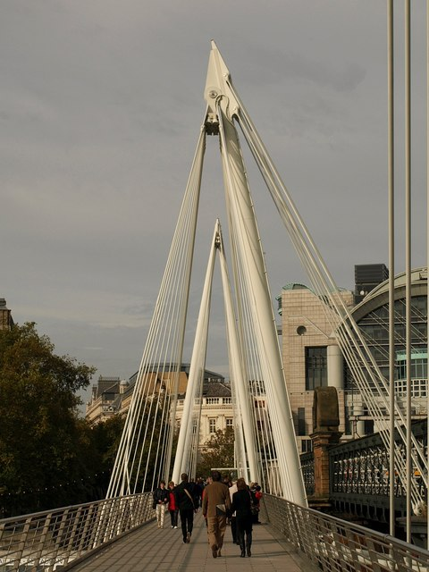 Deck stays, Hungerford footbridge Some of the deck stays from which the upstream footbridge is suspended. "The decks are suspended from fans of slender steel rods called deck stays — there are 180 on each deck, made up of over 4 km of cable".